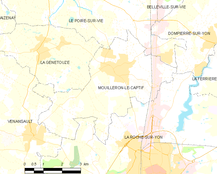 Map of French municipality Mouilleron-le-Captif